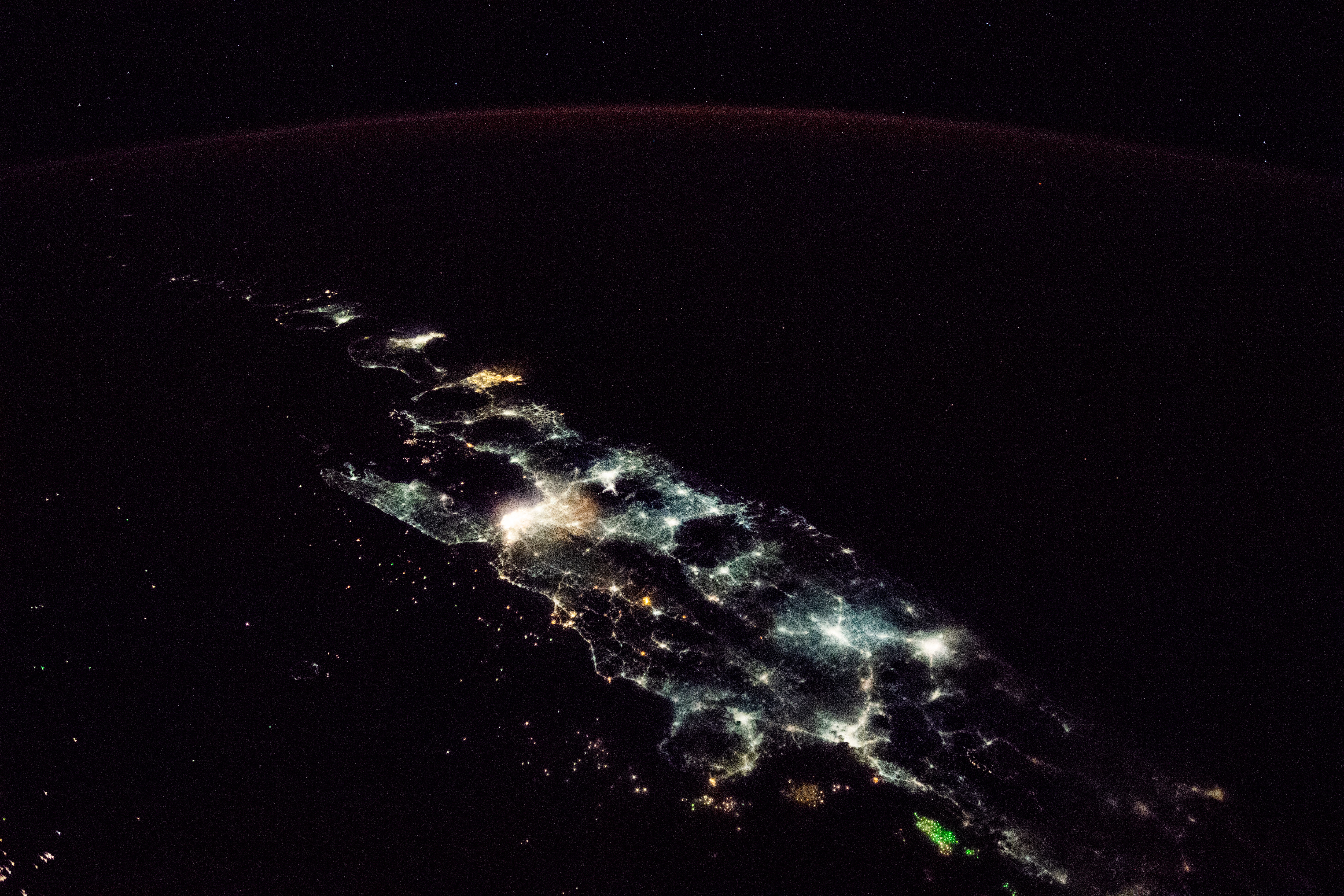 This oblique nighttime image, taken by an astronaut aboard the International Space Station, reveals Indonesia's main island chain. With coasts illuminated by city lights, the islands stand out against the darkness of the Indian Ocean. The island of Java is the geographic and economic center of Indonesia. With a population of more than 141 million people, it is the world's most populous island. Spacecraft nadir point: 2.8° S, 108.2° E Photo center point: 8.5° S, 112.5° E Nadir to Photo Center: Southeast Spacecraft Altitude: 218 nautical miles (404 km)